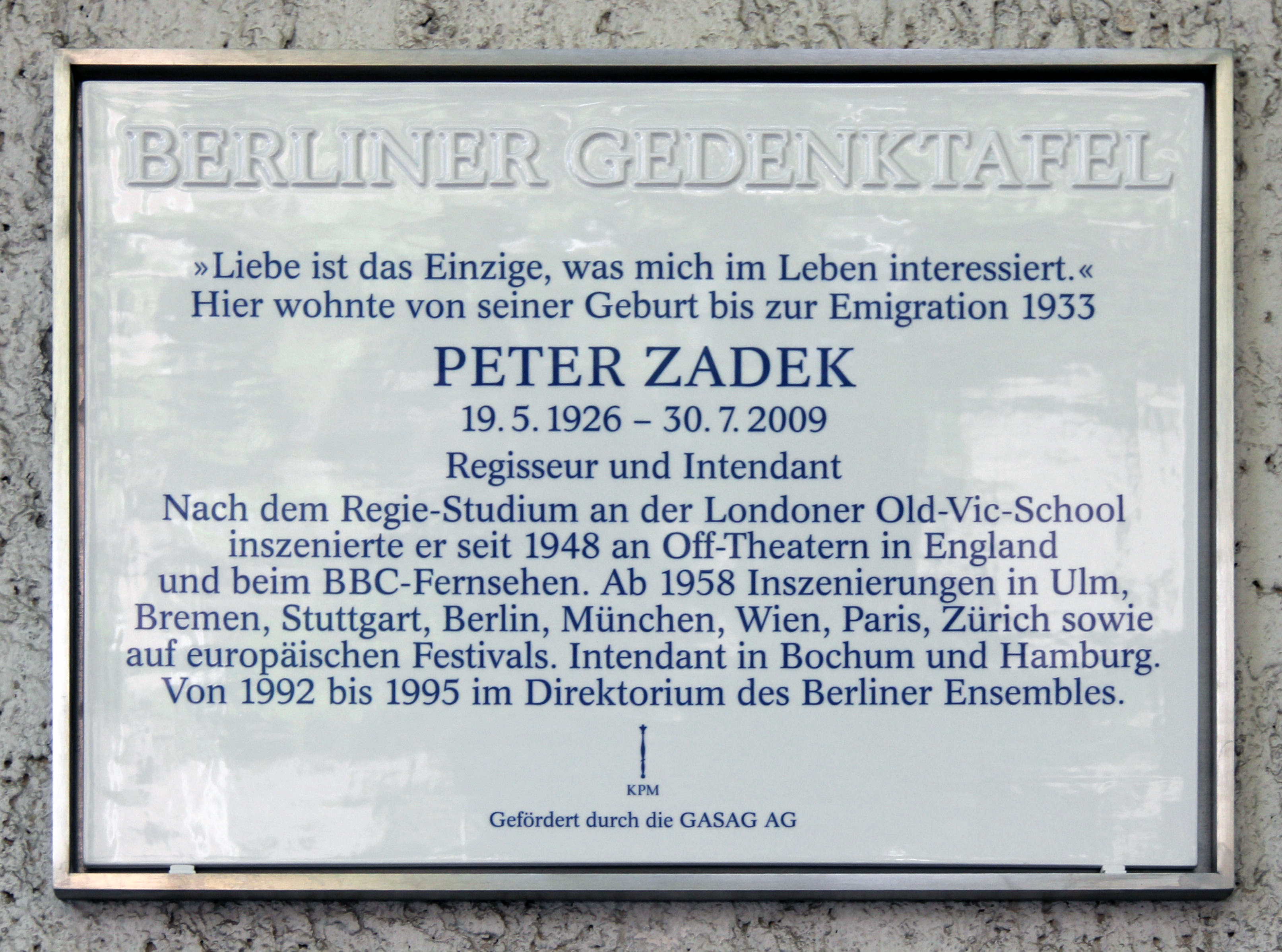 Berlin memorial plaque, Peter Zadek, Offenbacher Straße 24, Berlin-Wilmersdorf, Germany